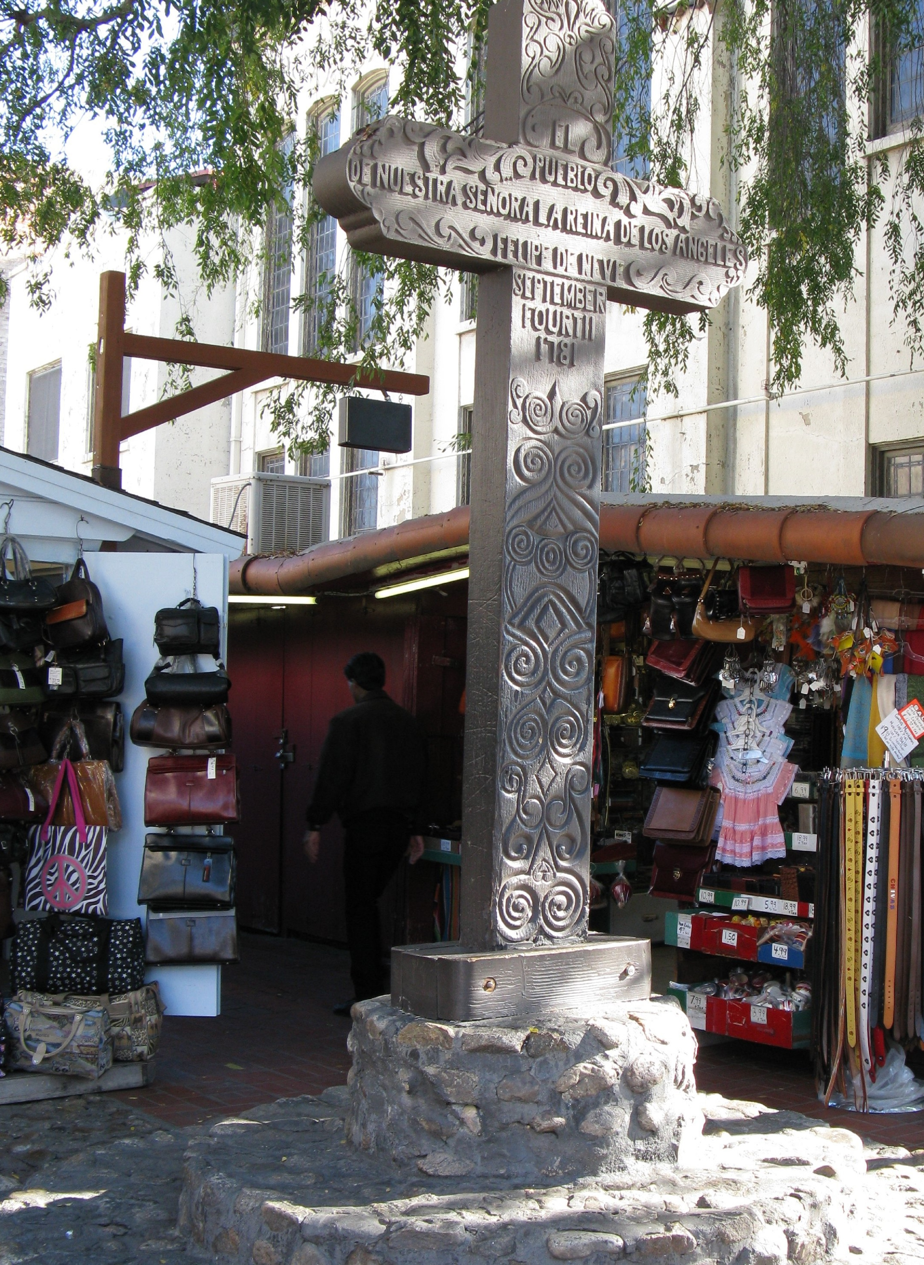 Cross-shaped historical marker commemorating founding of the pueblo